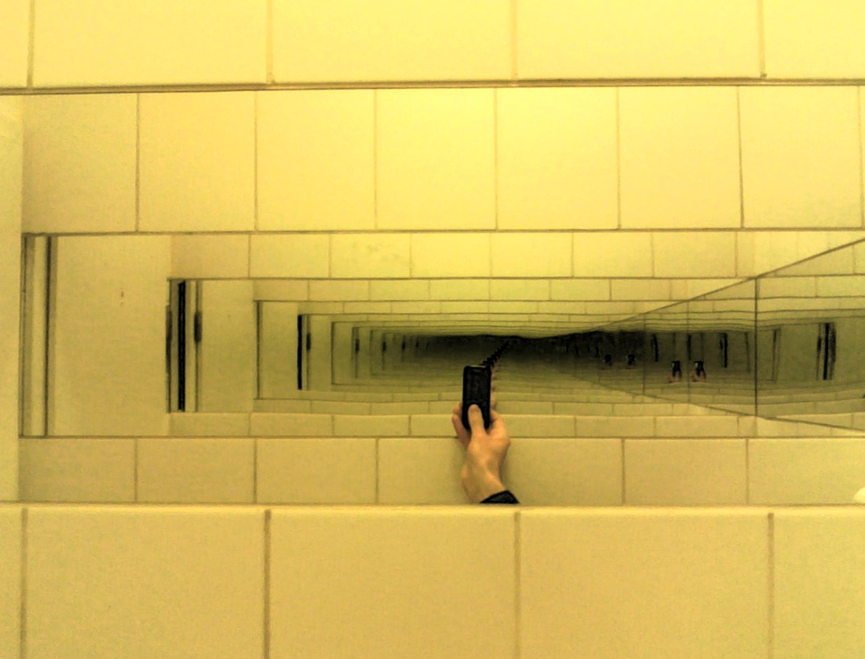 Unfortunately only with a mobile.